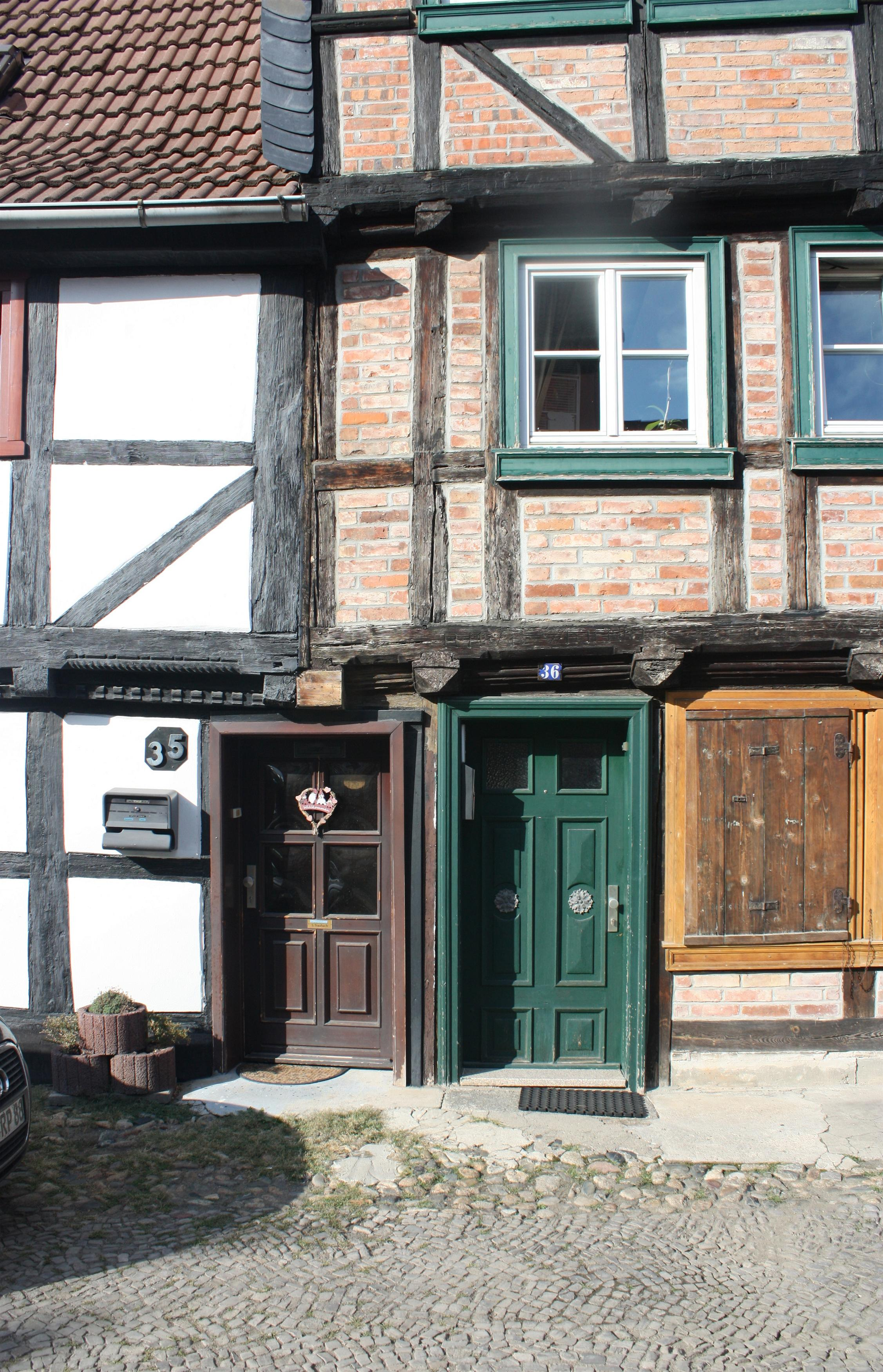 This is a photograph of an architectural monument.It is on the list of cultural monuments of Quedlinburg Augustinern 35-36 in Quedlinburg